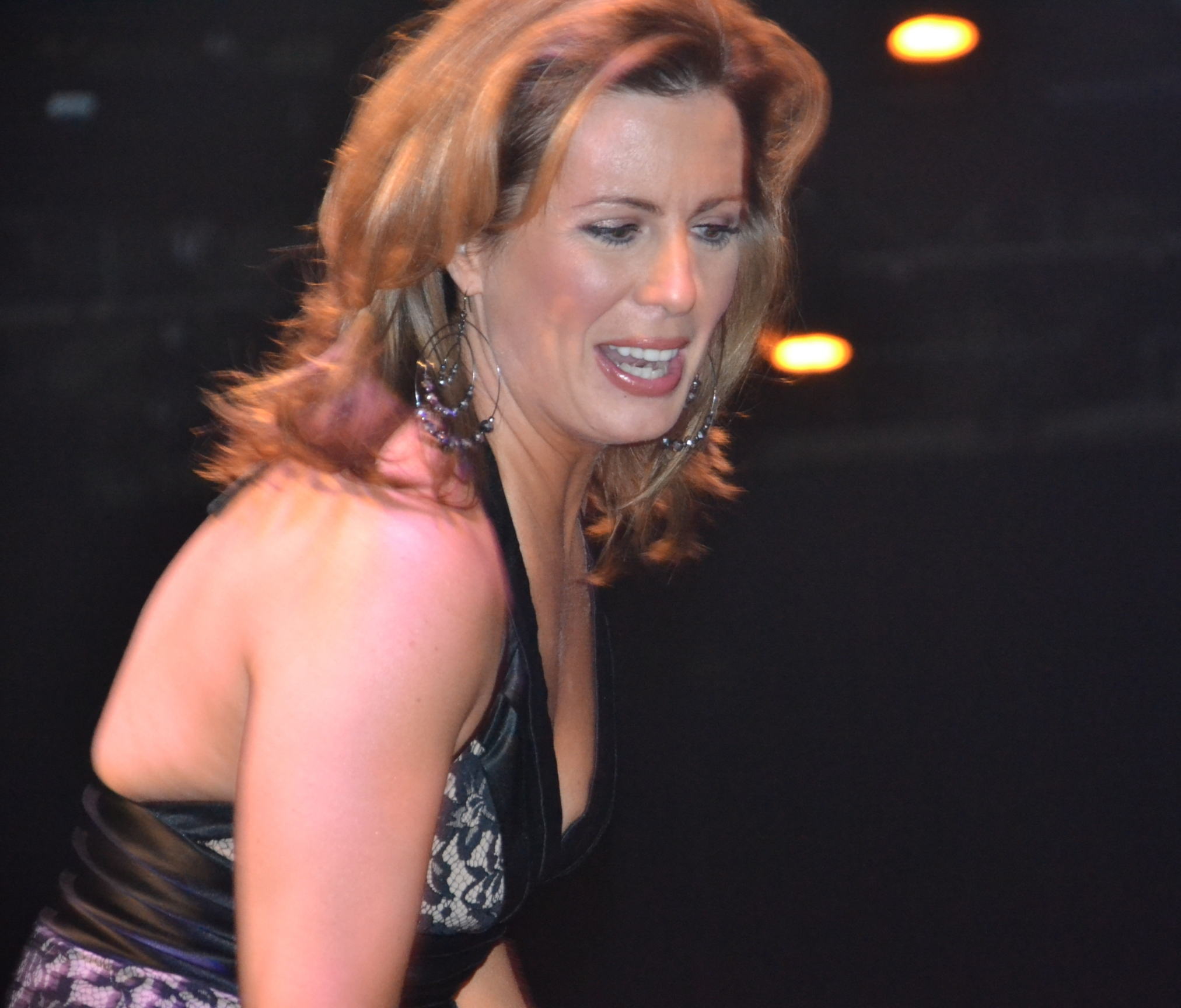 Martha Byrne at the ATWT farewell event in Hilversum (Holland)